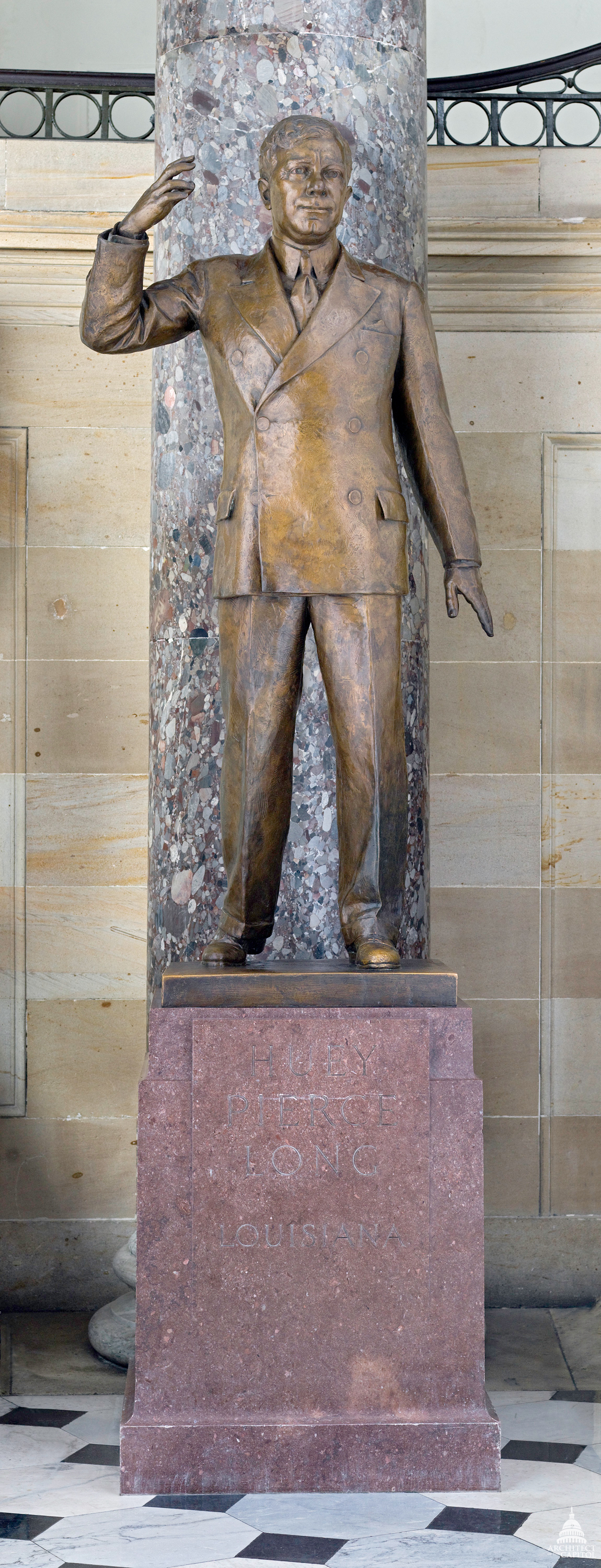 Huey Pierce Long (1893-1935) Louisiana Bronze by Charles Keck Given in 1941 National Statuary Hall U.S. Capitol This official Architect of the Capitol photograph is being made available for educational, scholarly, news or personal purposes (not advertising or any other commercial use). When any of these images is used the photographic credit line should read “Architect of the Capitol.” These images may not be used in any way that would imply endorsement by the Architect of the Capitol or the United States Congress of a product, service or point of view. For more information visit